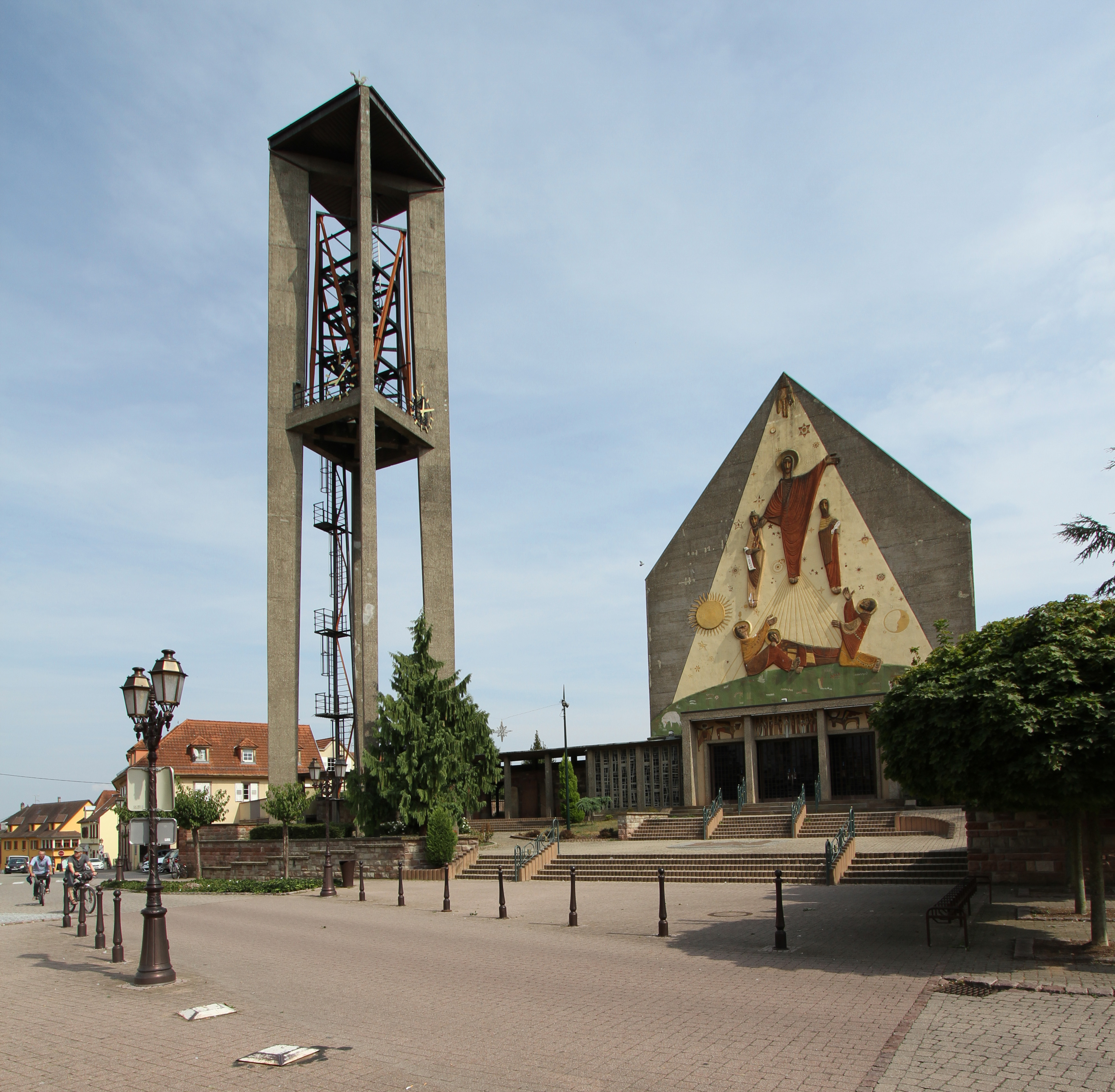 Church of Saint Stephen in Seltz.